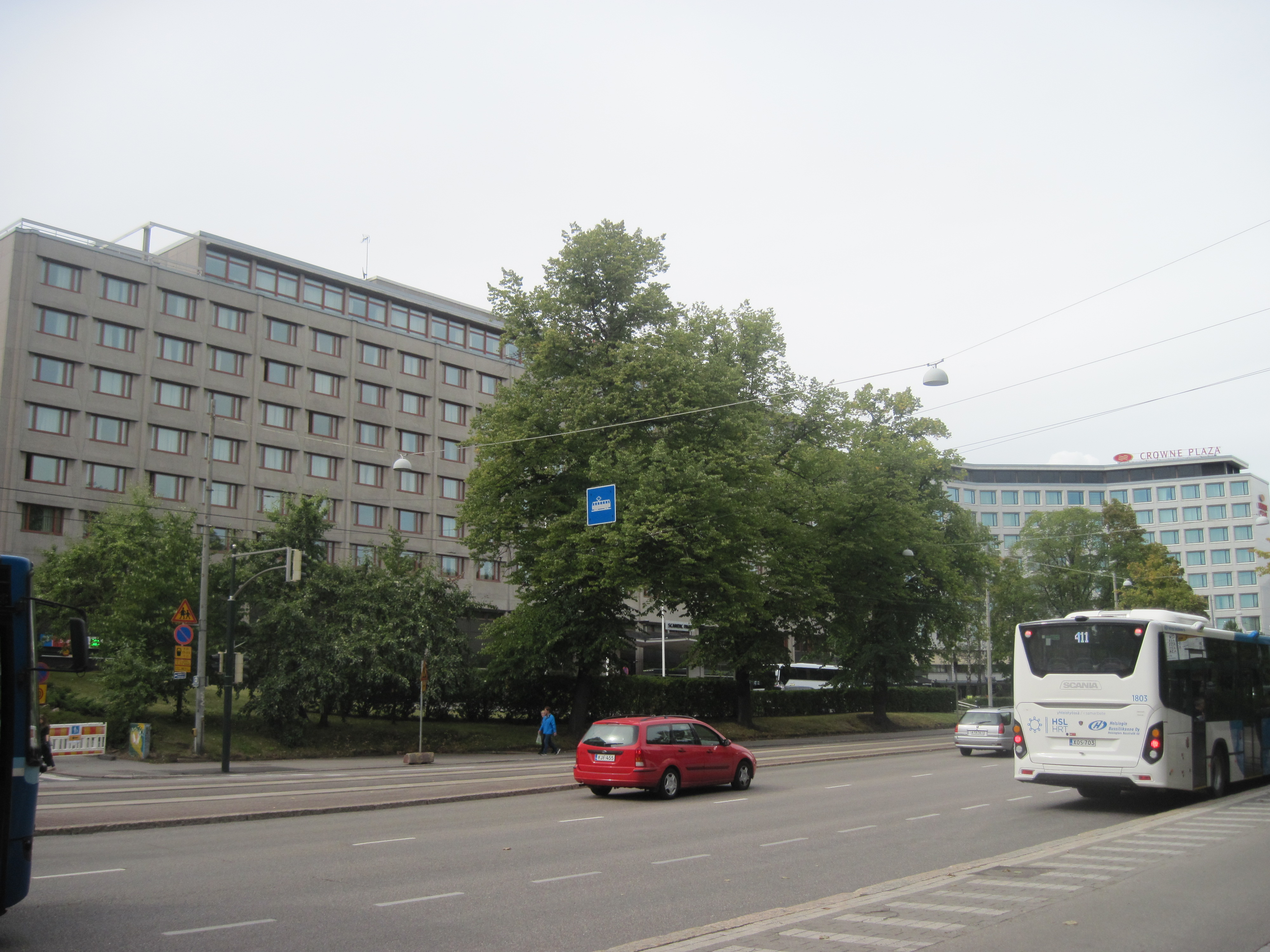 Hotels Scandic Continental and Crowne Plaza at Mannerheimintie, Helsinki, Finland